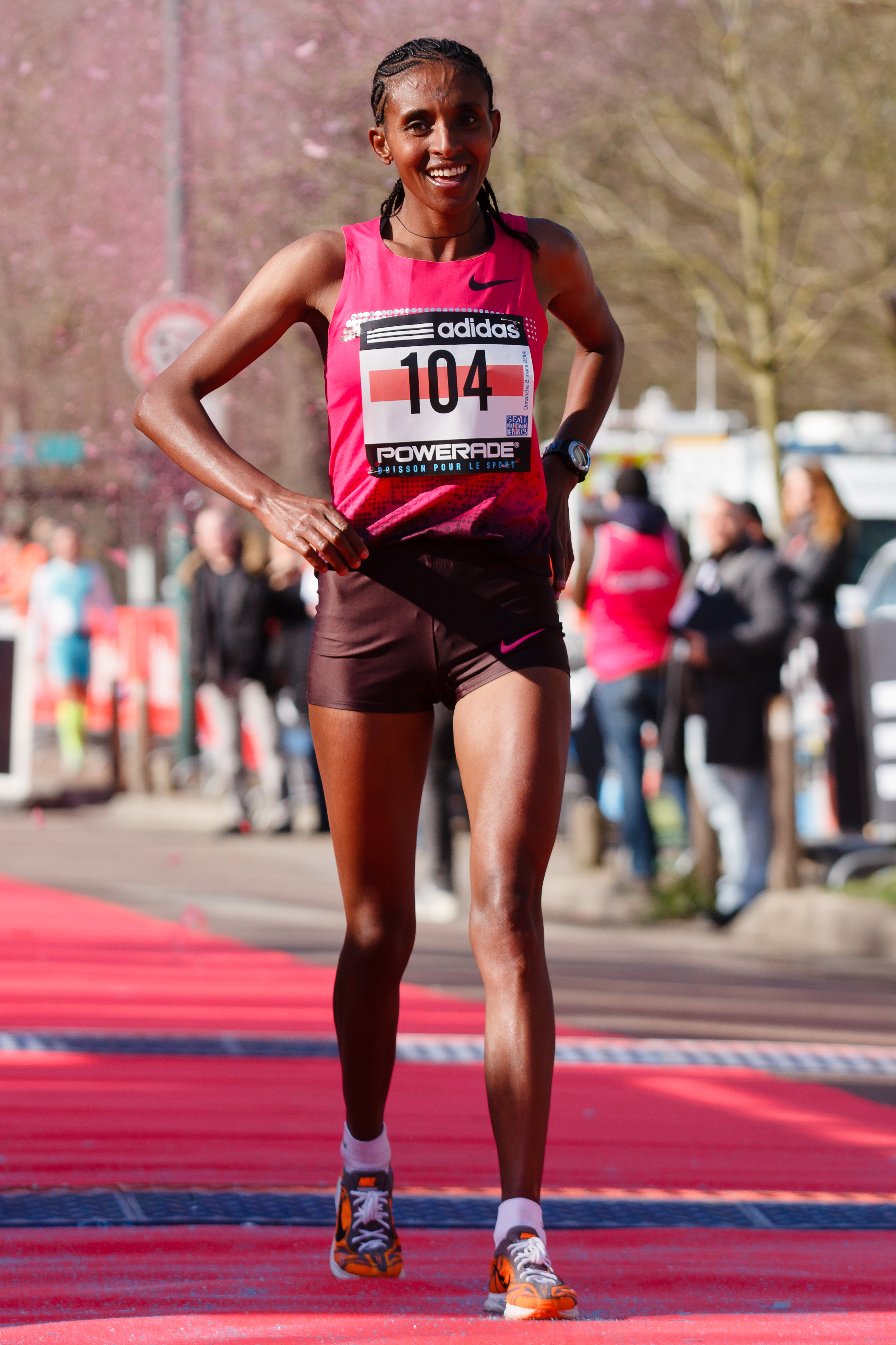 Yebrugal Melese, seconds after winning Paris Half Marathon 2014.